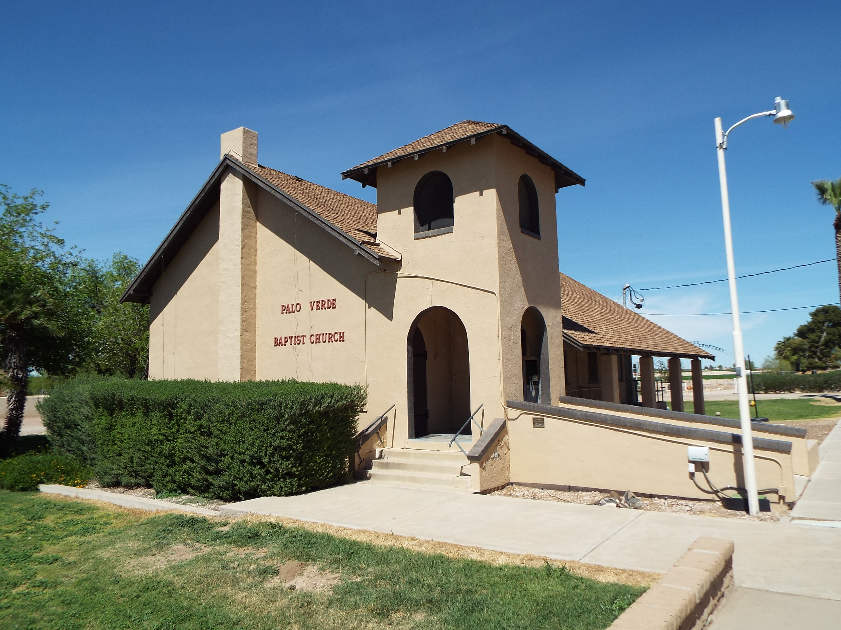 The Palo Verde Baptist Church was built in 1890 and is located on 29600 West Old Hwy. 80. In Buckeye, Arizona. Listed as historical b y the Buckeye Valley Historical and Archaeological Society.